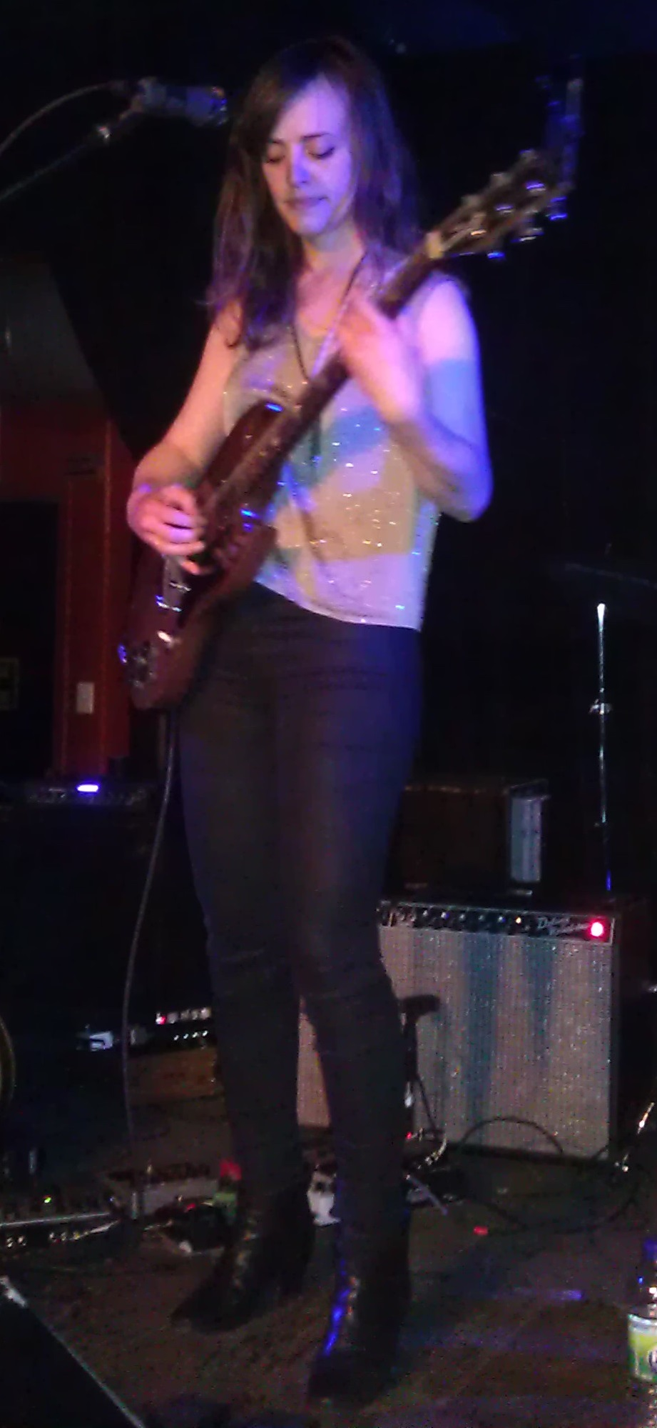 Heather Woods Broderick photographed in Montreal, Quebec, Canada at the Divan Orange venue.